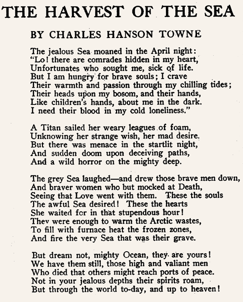 The Harvest of the Sea